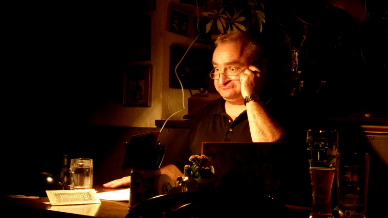 German cabaret artist